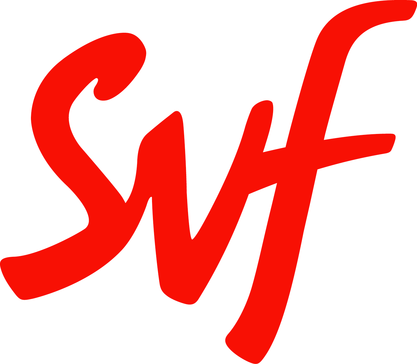 SVF Entertainment Pvt. Ltd